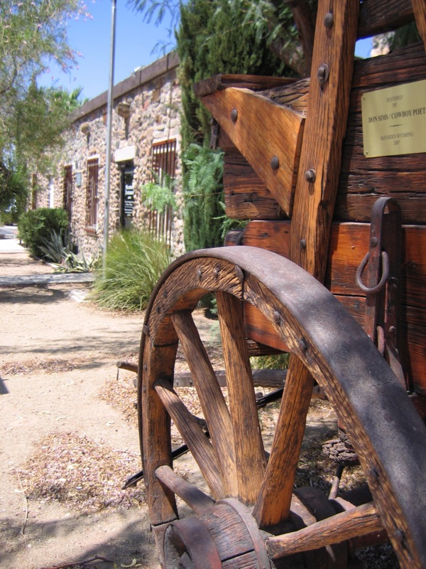 Wagon at the Virgin Valley Heritage Museum, located in Mesquite, Clark County, southern Nevada.